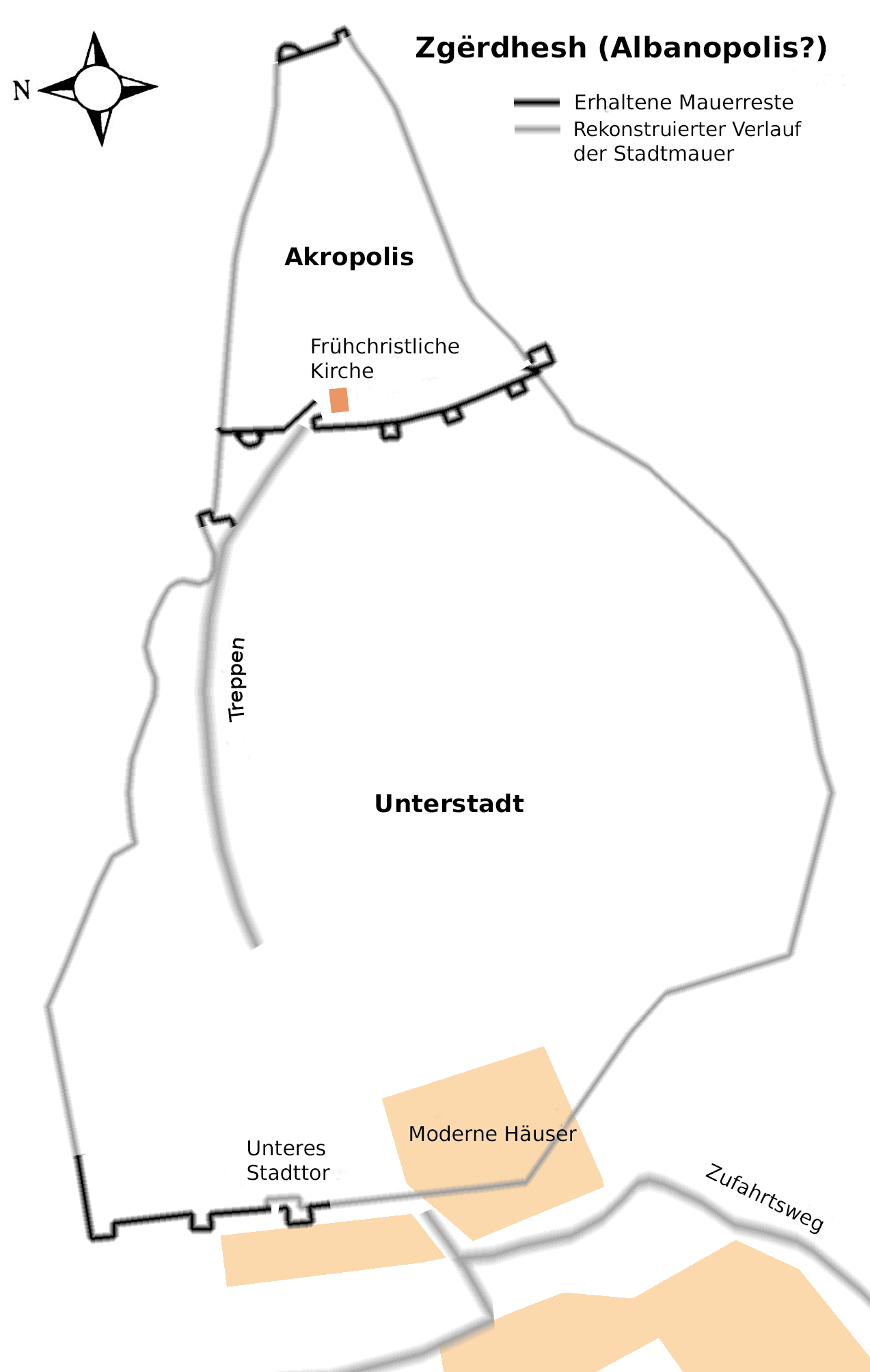 Simplified map of Zgërdhesh, Kruja, Albania with German labels